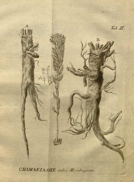 Formerly Chamaejasme Amm. (now Stellera L.). Illustration from Stirpium rariorum … ab Ioanne Ammano